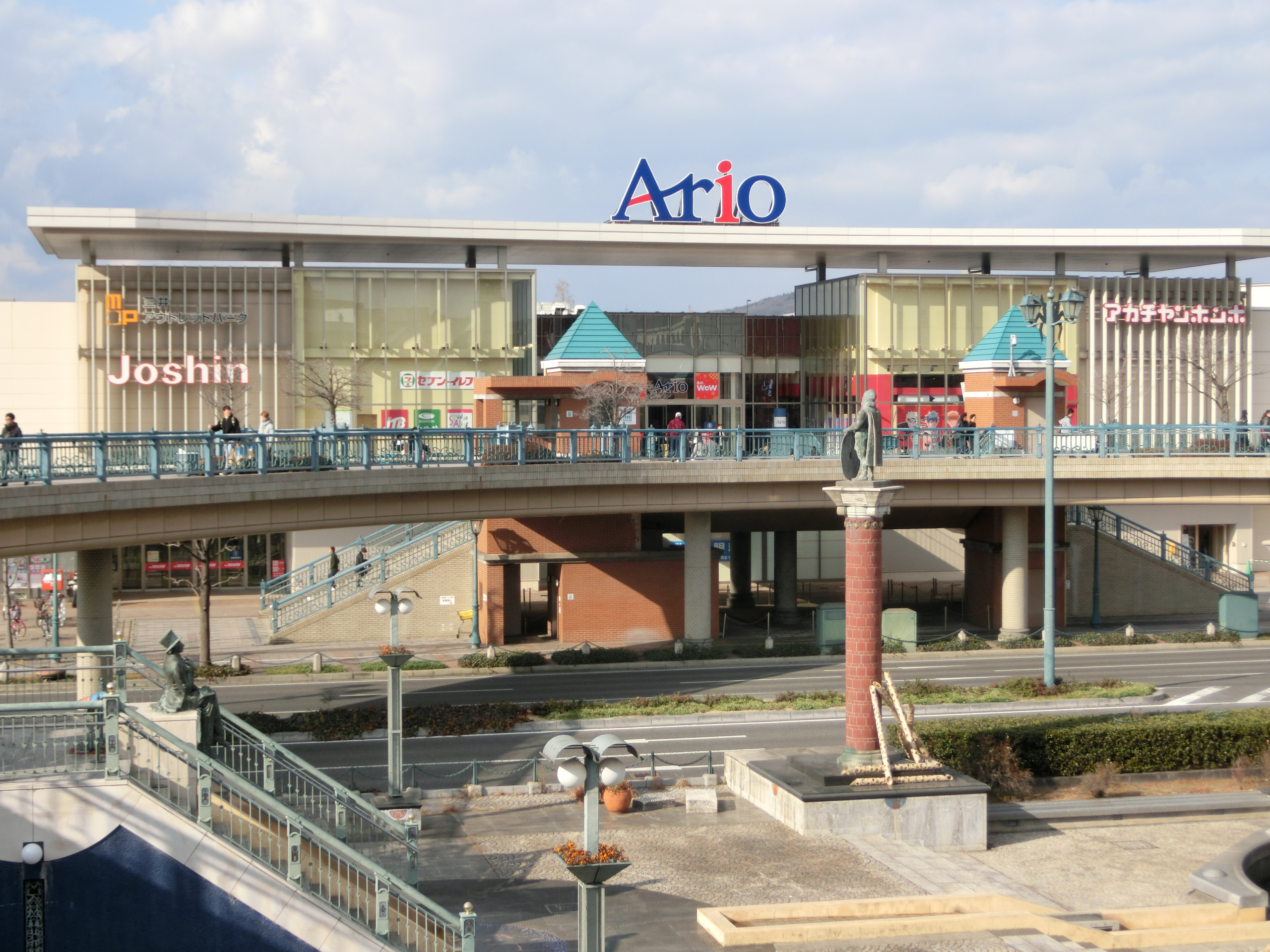 Ario Kurashiki